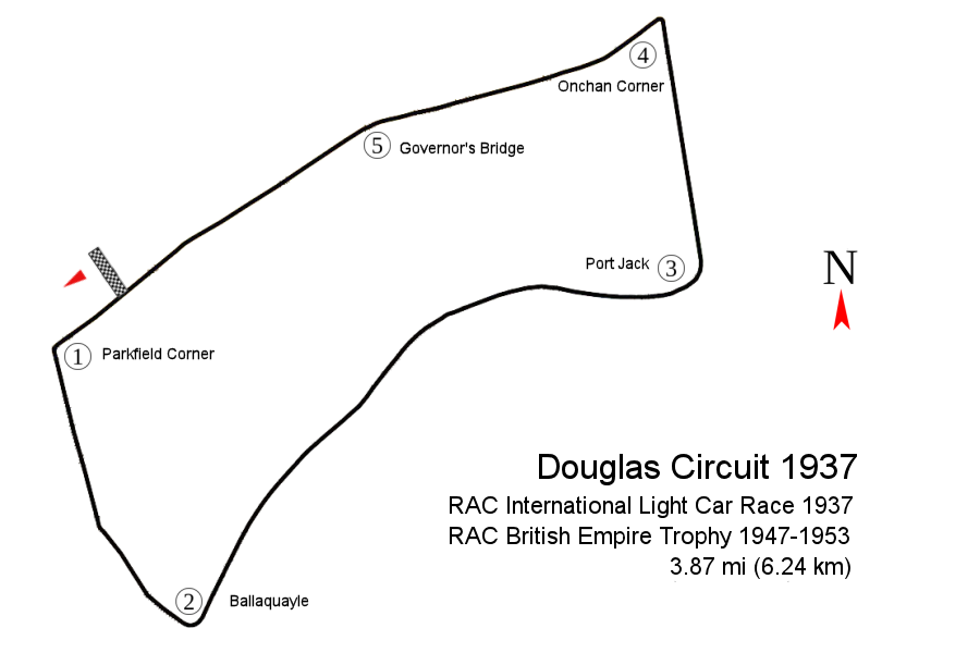 Douglas Circuit 1937 (Isle of Man)